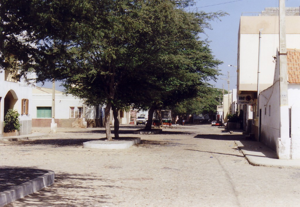 Main street in the town of Espargos (Photographer: Dirk Krummacker)